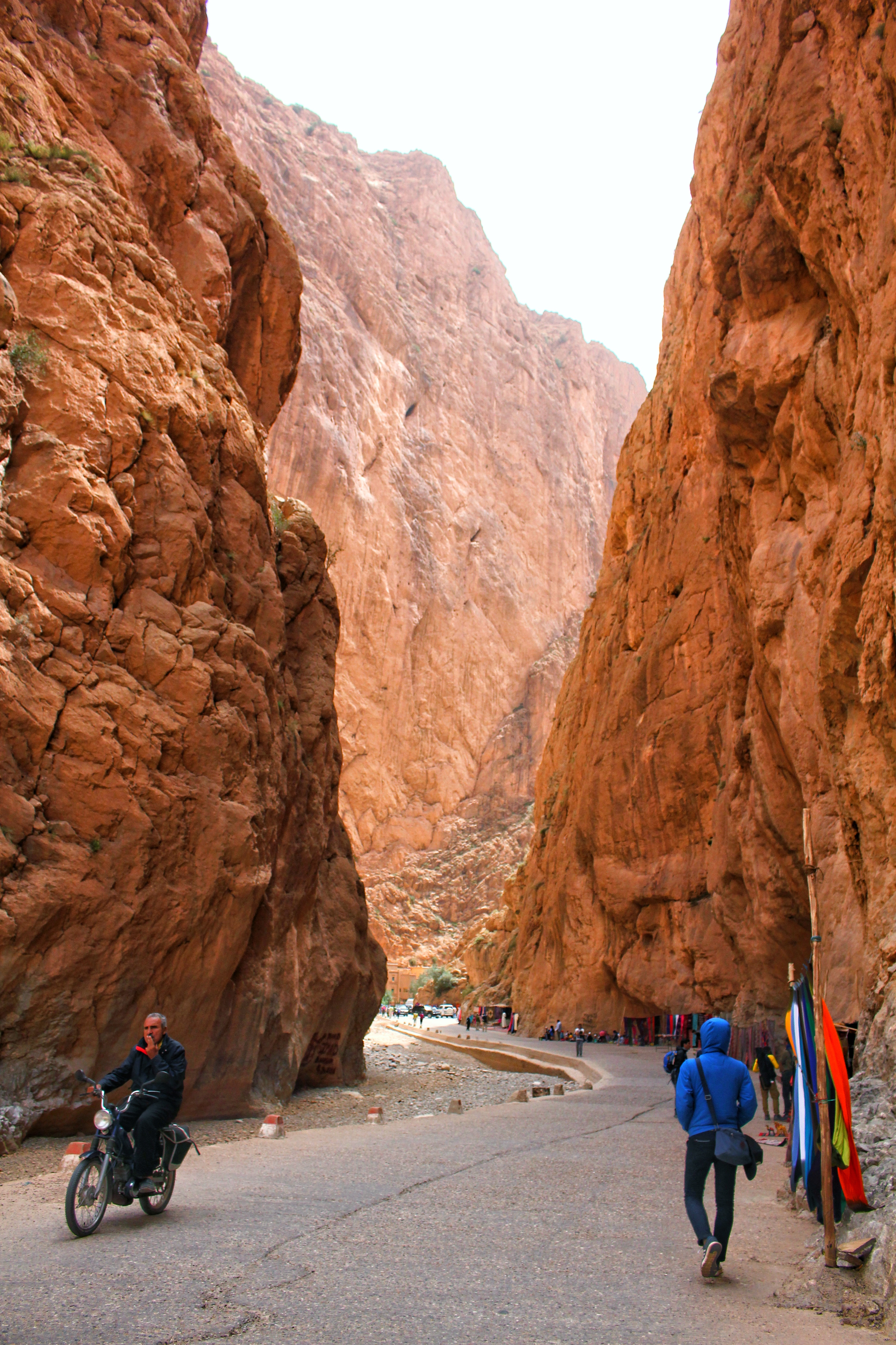 Passageway between high mountains in the Todgha Gorges, Morocco.